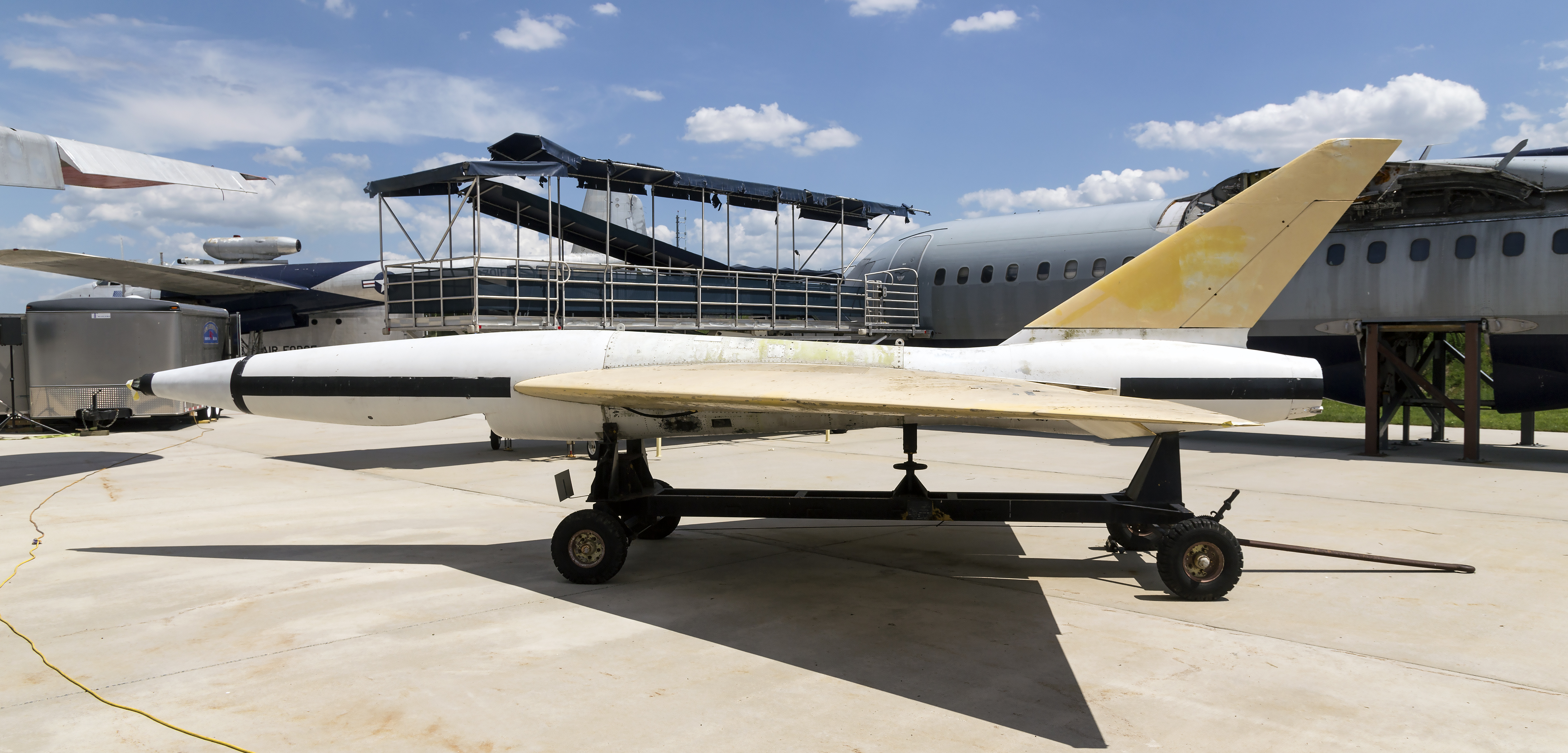 Fairchild SM-73 Bull Goose decoy missile at Hagerstown, Maryland, USA